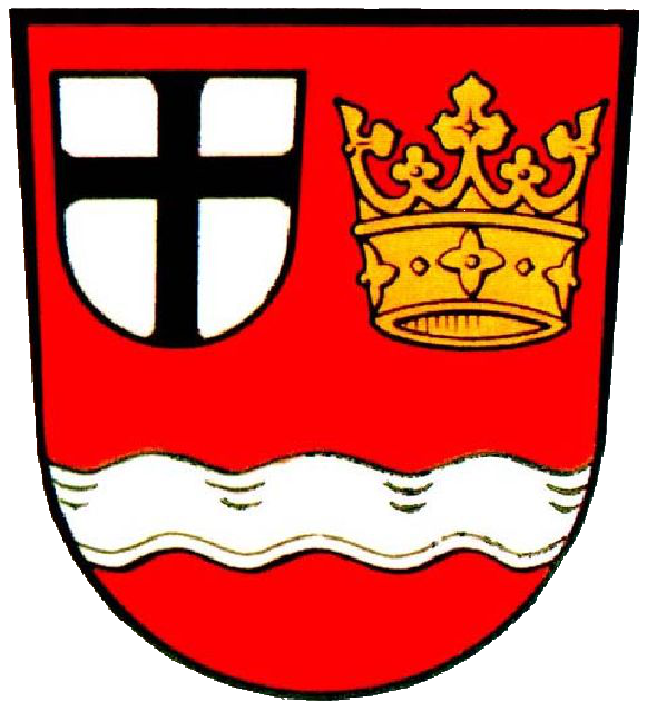 Coat of Arms of Schondra